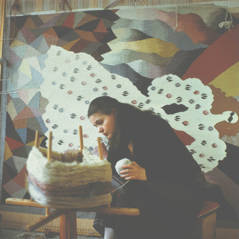 "The Moldavian artist-designer Maria Racila-Saca behind work" (80th years).